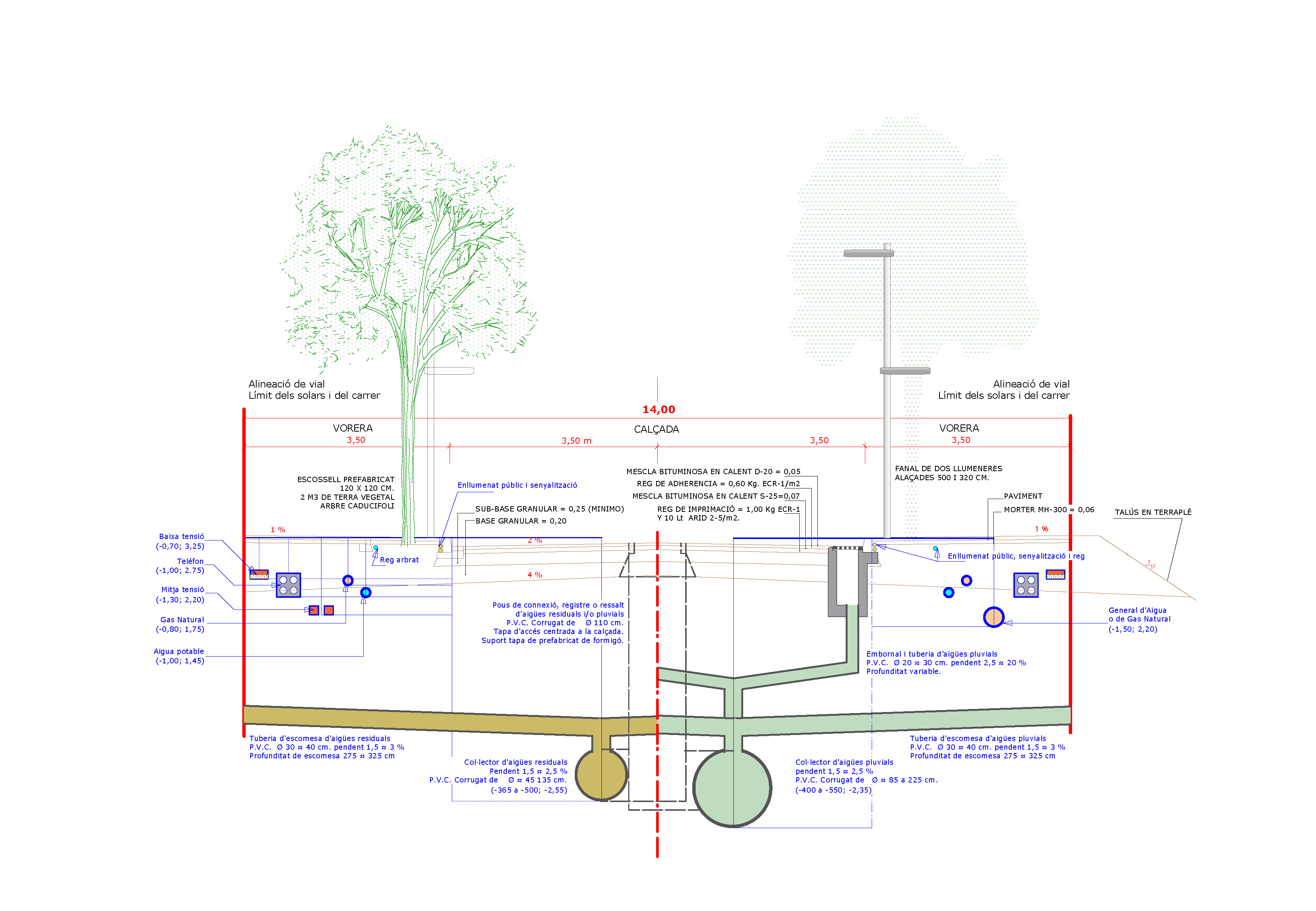 Section types of project development, with sewer system by separating sewage from rain. Water service, medium and low voltage electricity, natural gas, telephone, streetlights, trees and irrigation. Signs in Catalan language.